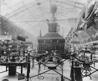 Photograph of Thomas Edison's exhibit at the Paris Exposition Universelle (1889).